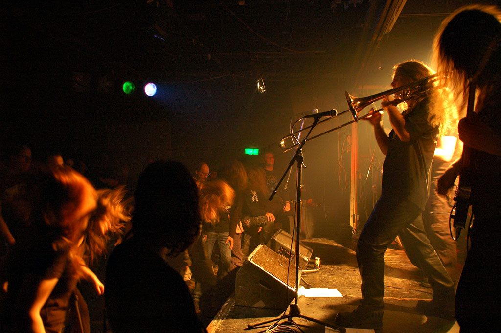 Hungarian metal band Sear Bliss playing live at Baroeg festival.